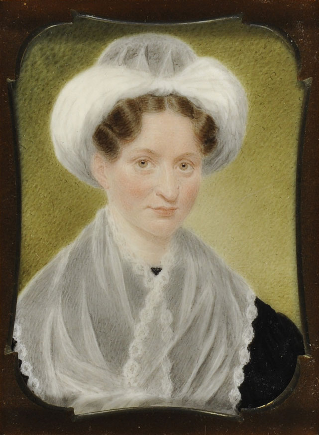 Cropped version of File:Mary Lyon ivory miniature.jpg